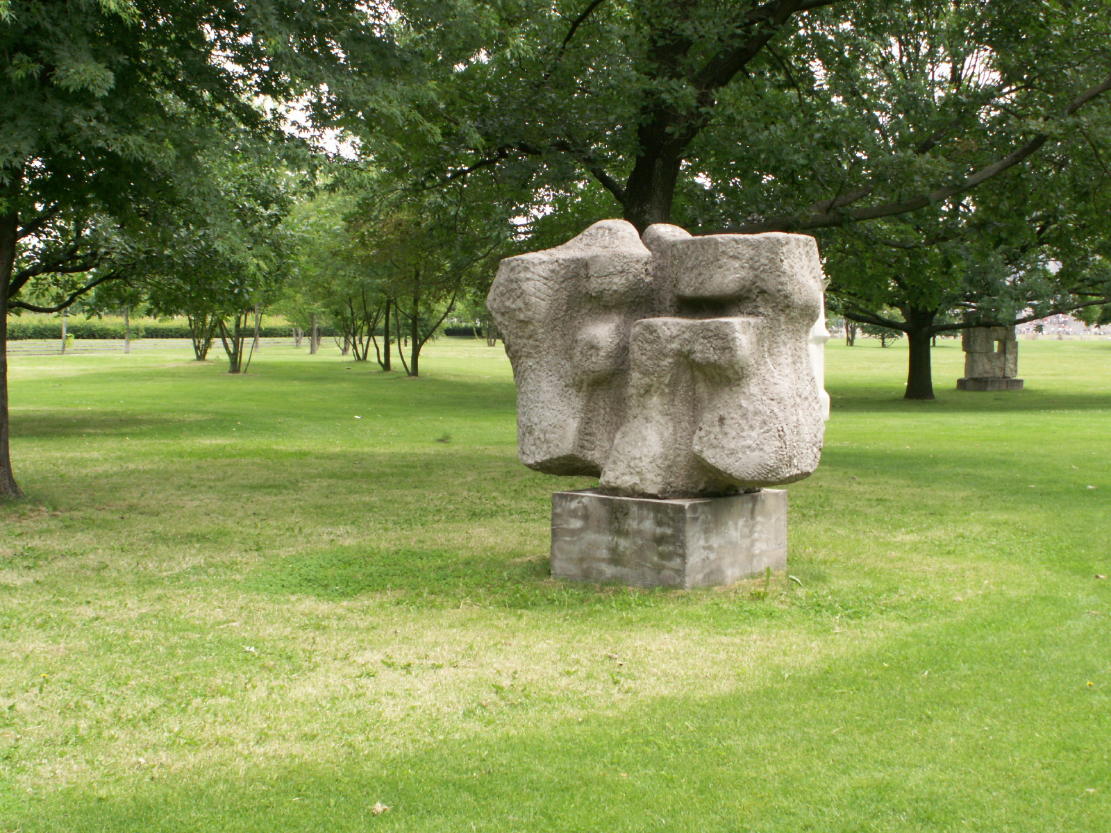 Gerson Fehrenbach, Germany, Berlin, „Symposion europaeischer Bildhauer“, 1961/63, untitled